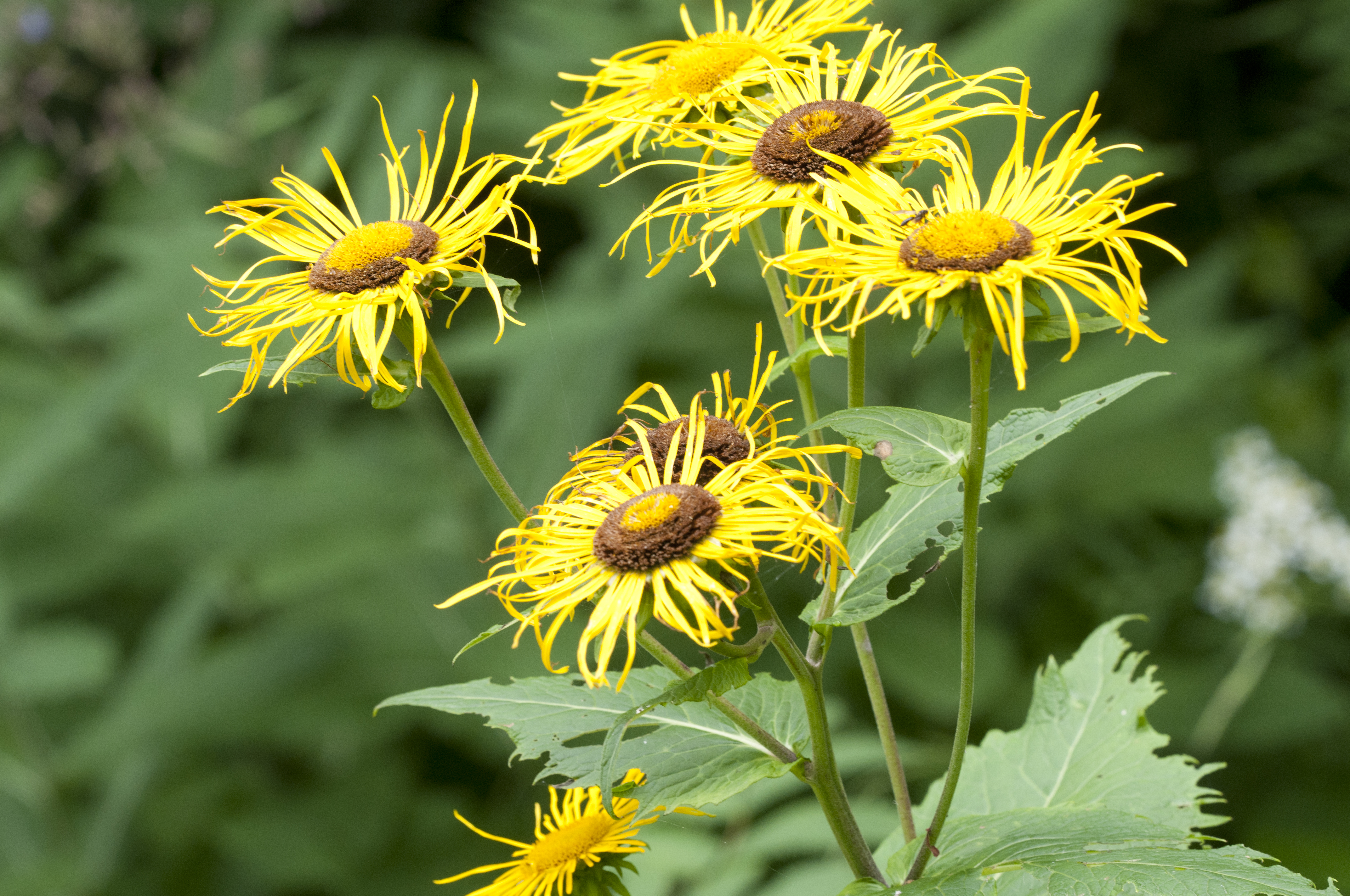 Heartleaf oxeye (Telekia speciosa). Dereli, Giresun - Turkey. 900 m.